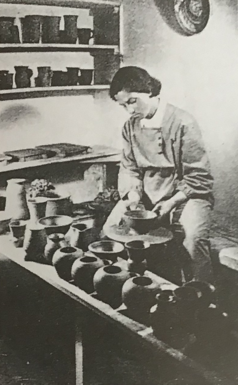 Hilde Heger